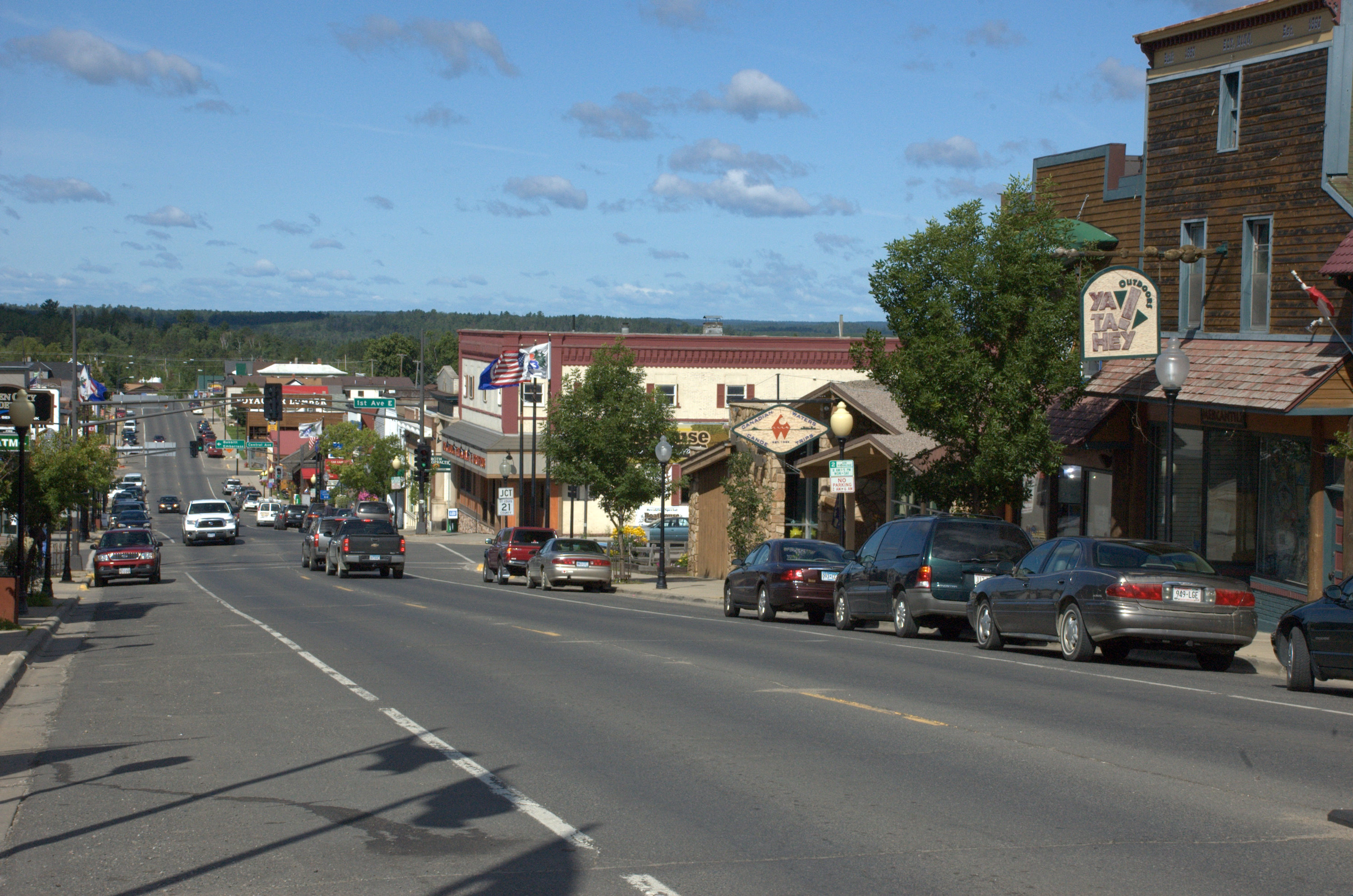 Northen MN